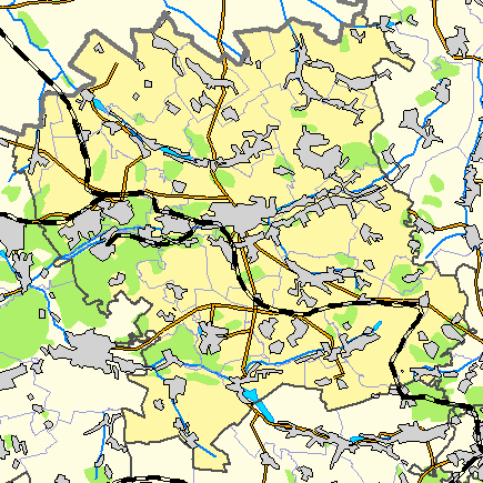 Map of Bohodukhiv Raion, Kharkiv Oblast, Ukraine